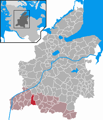 Locator maps of municipalities in Schleswig-Holstein - District Rendsburg-Eckernförde